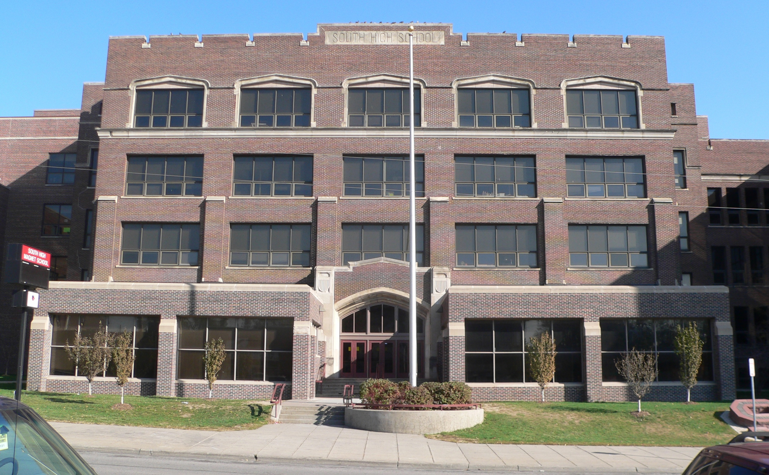 Omaha South High School in Omaha, Nebraska. Central portion of building, seem from the west. 24th Street is in the foreground.